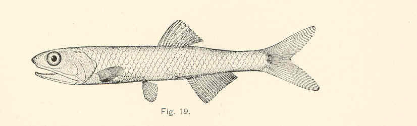 Stolophorus carystole Subject: Stolophorus Tag: Fish